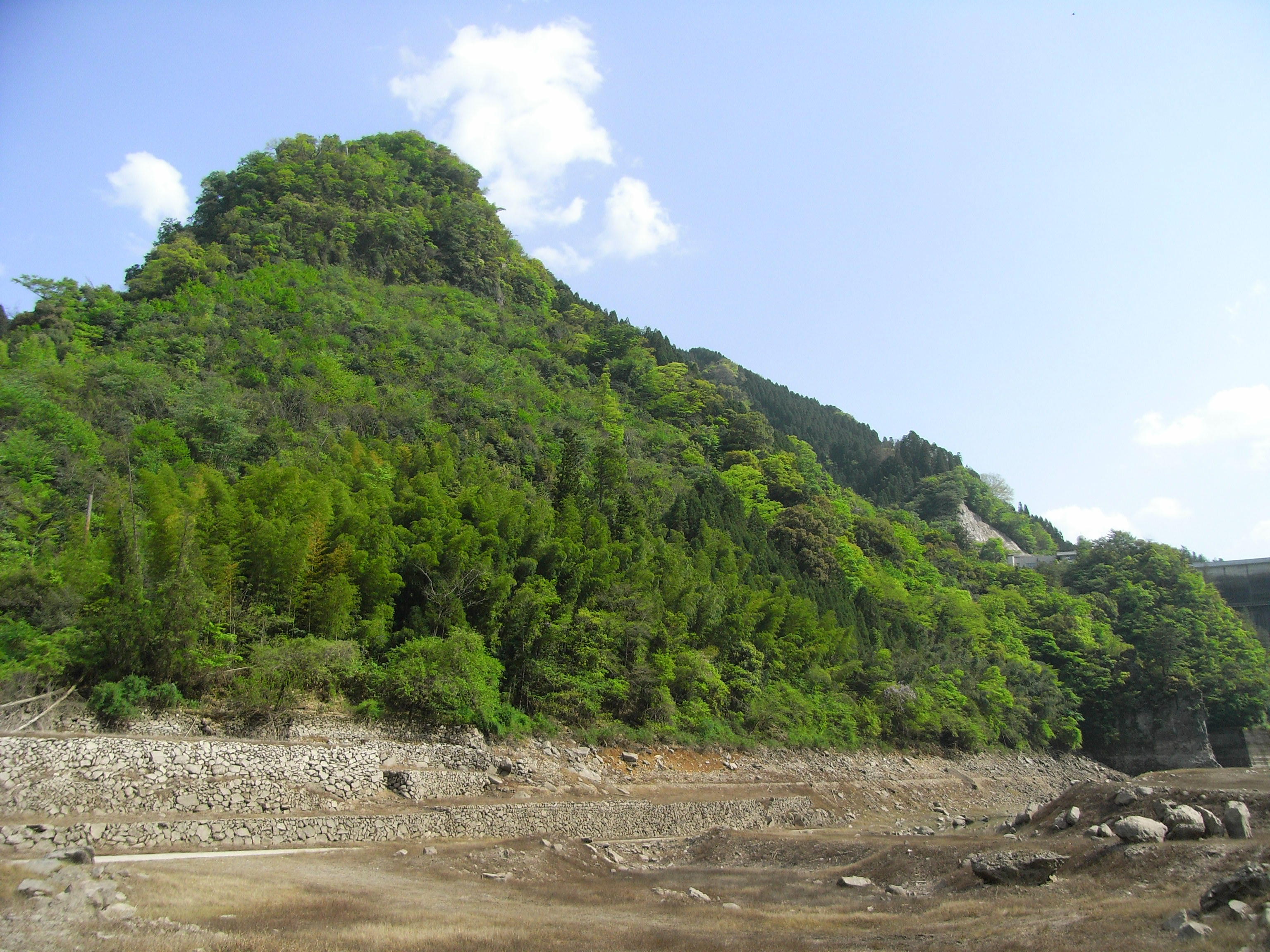 Hachinosujyo(Oguni,Kumamoto)